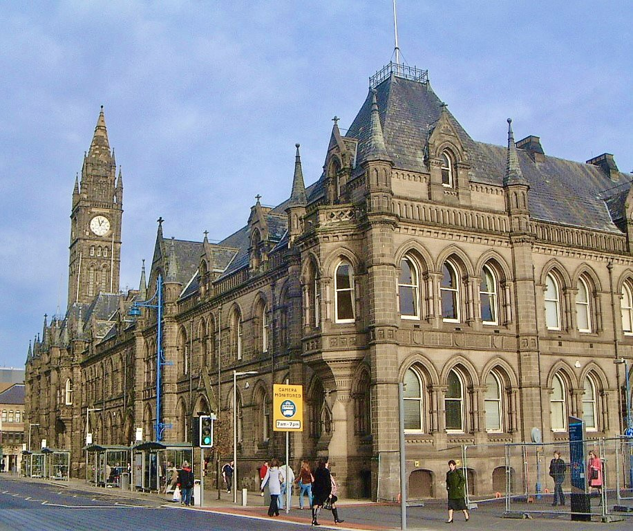 Middlesbrough Town Hall my imge